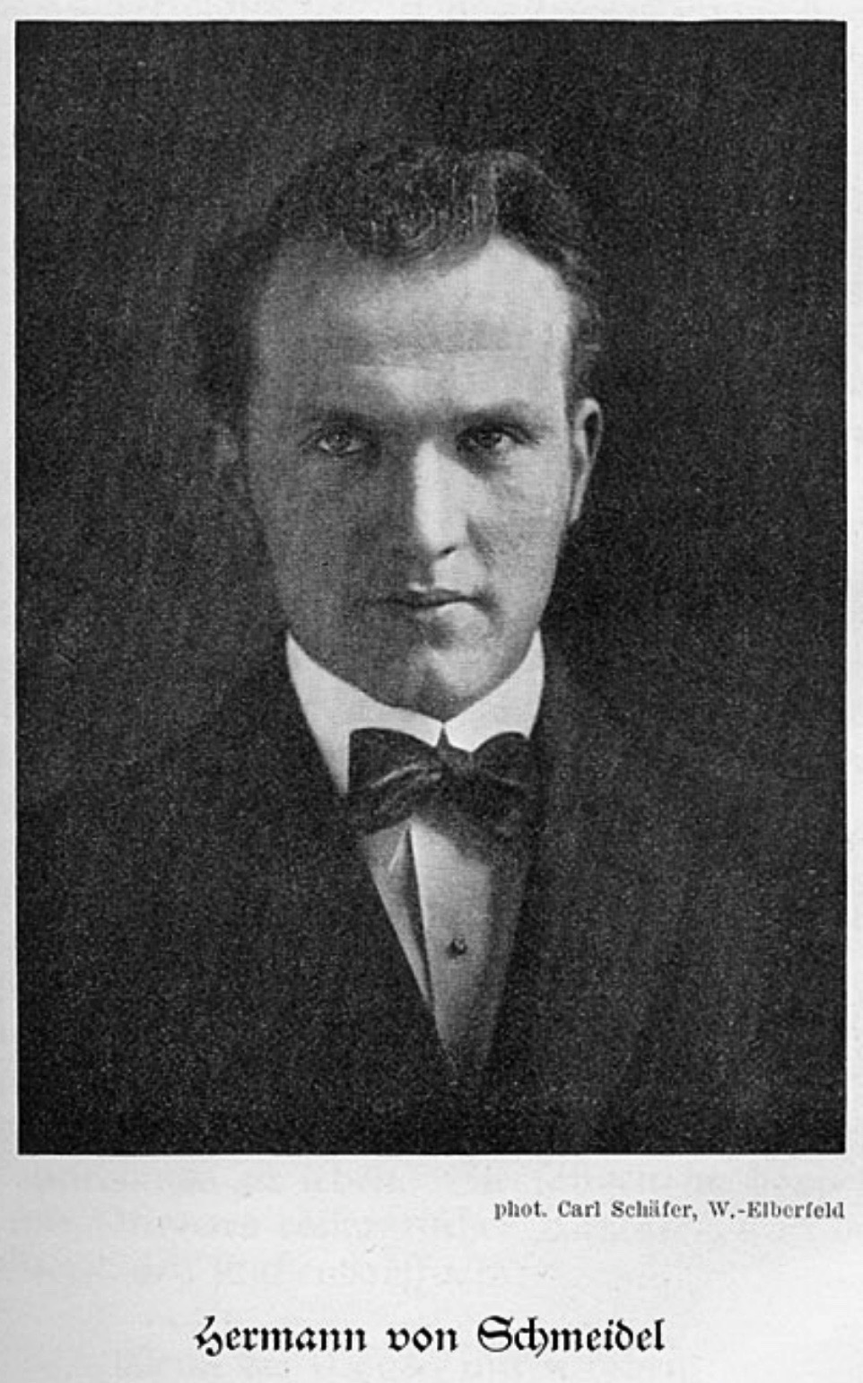 Hermann von Schmeidel (1894–1953) as head of Elberfelder Konzert-Gesellschaft between 1921 and 1924/25.